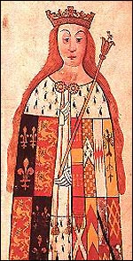 Anne Neville, a daughter and co-heiress of Richard Neville, 16th Earl of Warwick KG (22 November 1428 – 14 April 1471), "Warwick the Kingmaker". She married King Richard III. Arms on her mantle: Royal arms of Richard III impaling Warwick the Kingmaker, quarterly of 7: 1:Beauchamp, Earl of Warwick; 2:Newburgh, Earl of Warwick; 3:Montagu, Earl of Salisbury; 4:Monthermer, heiress of Montagu; 5:Neville; 6:de Clare, Lord of Glamorgan; 7: Despencer, Lord of Glamorgan. Source (URL)